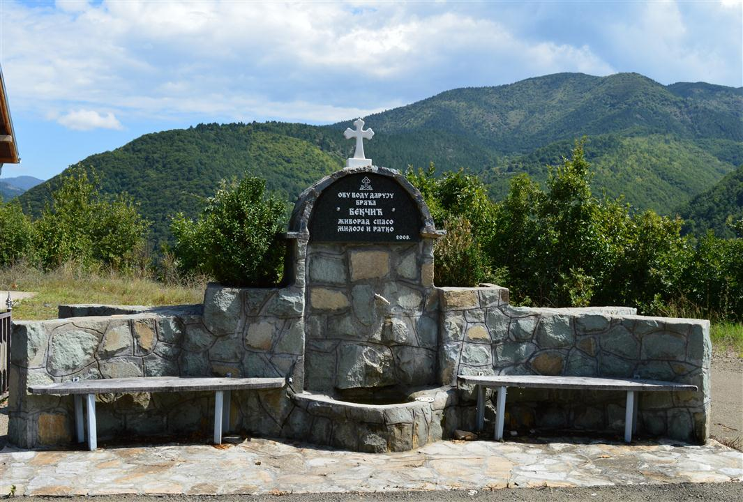 Raska Municipality - Žerađe